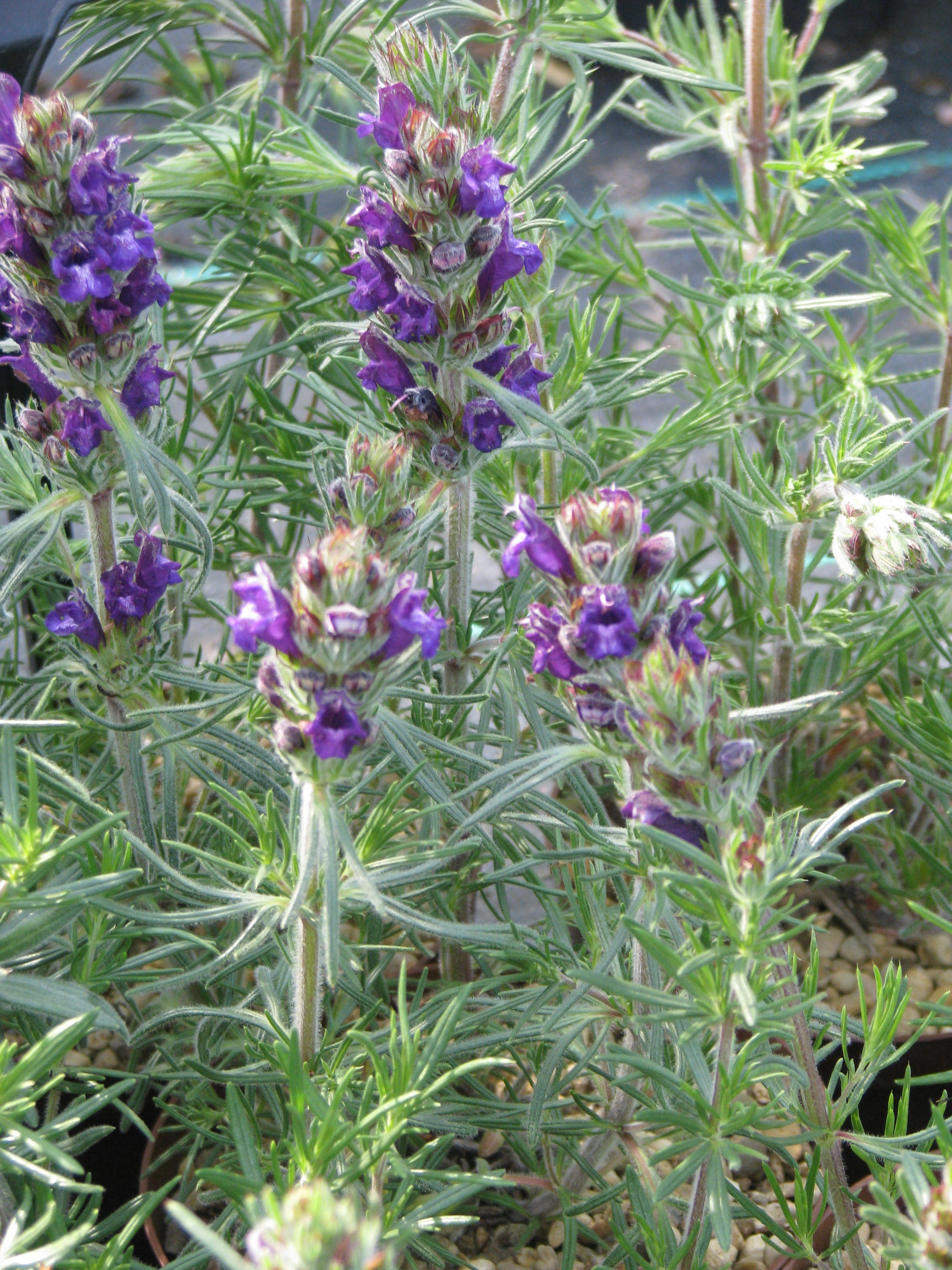 An outstanding species in flower and foliage